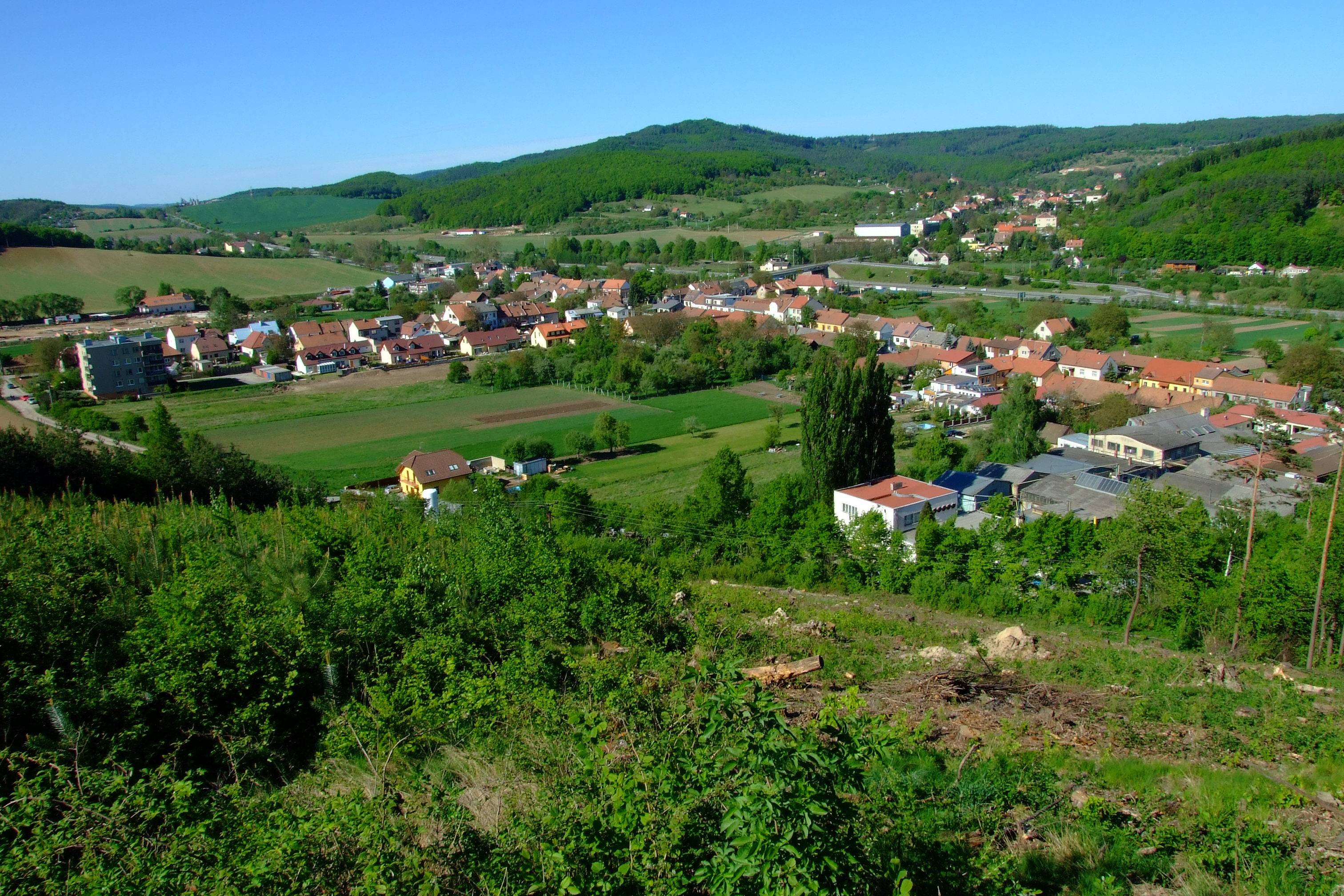 Village Česká north of Brno